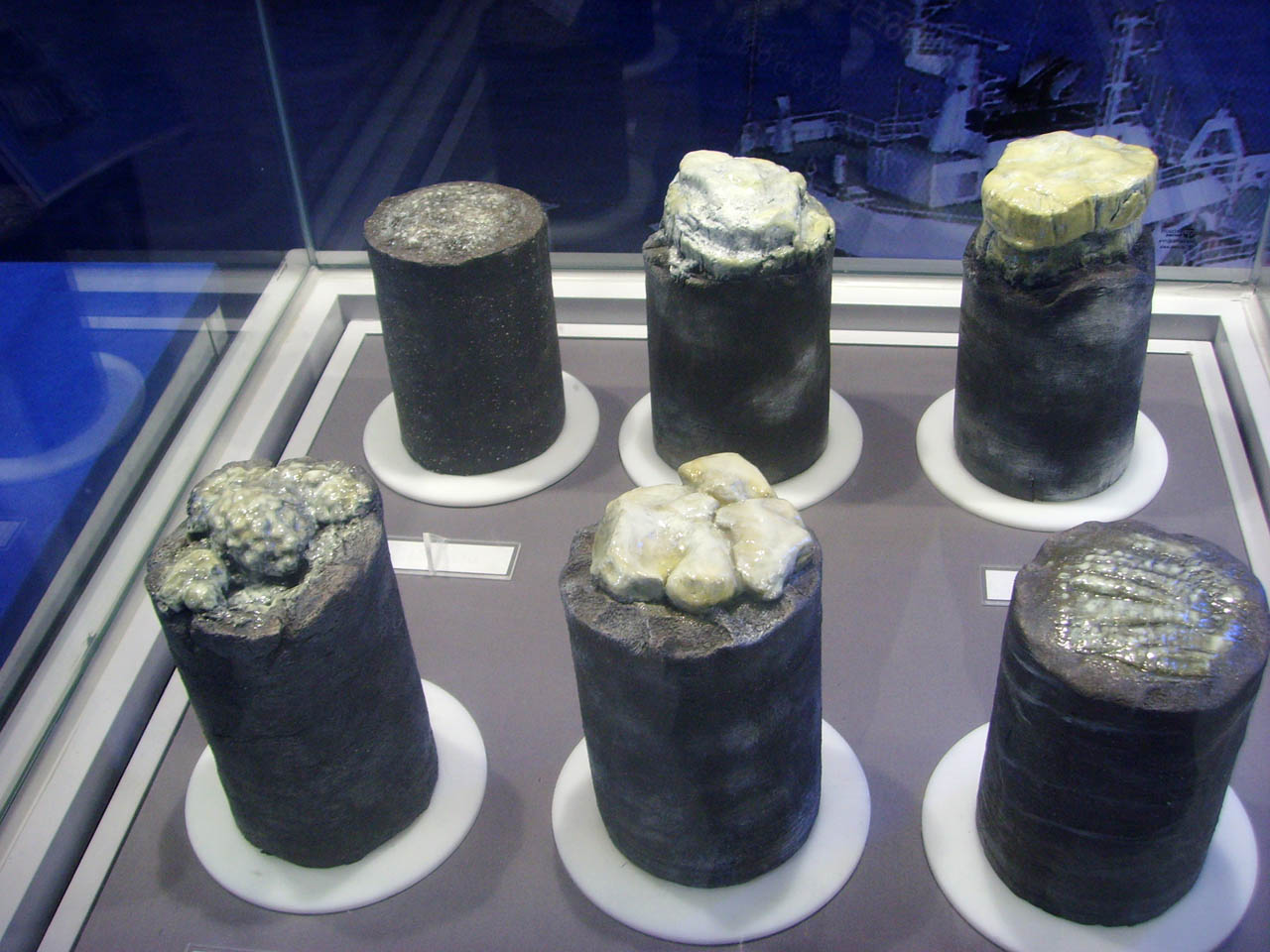 Methane clathrate